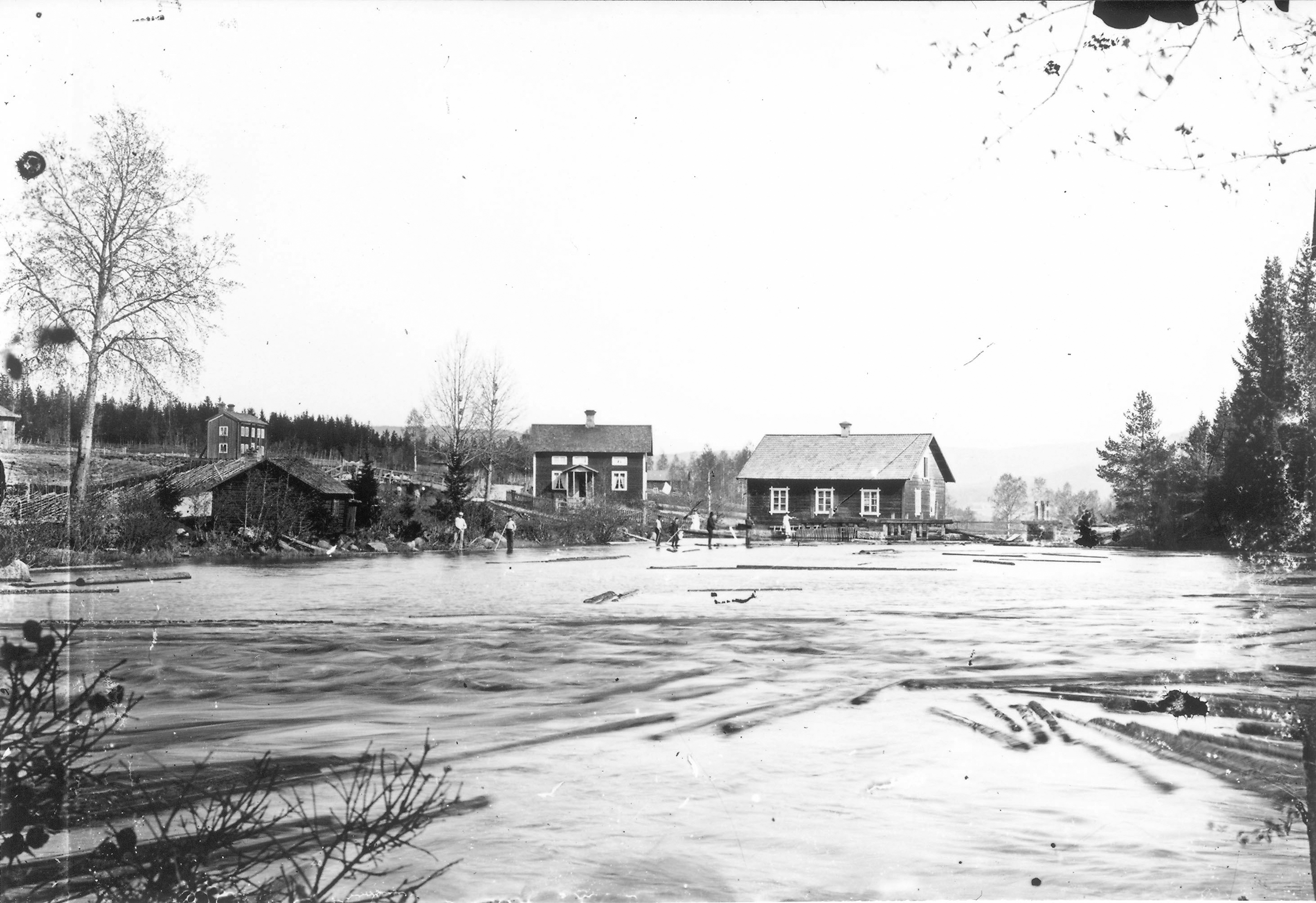 The old mill in Knisselbo, Bollnäs municipality Sweden.